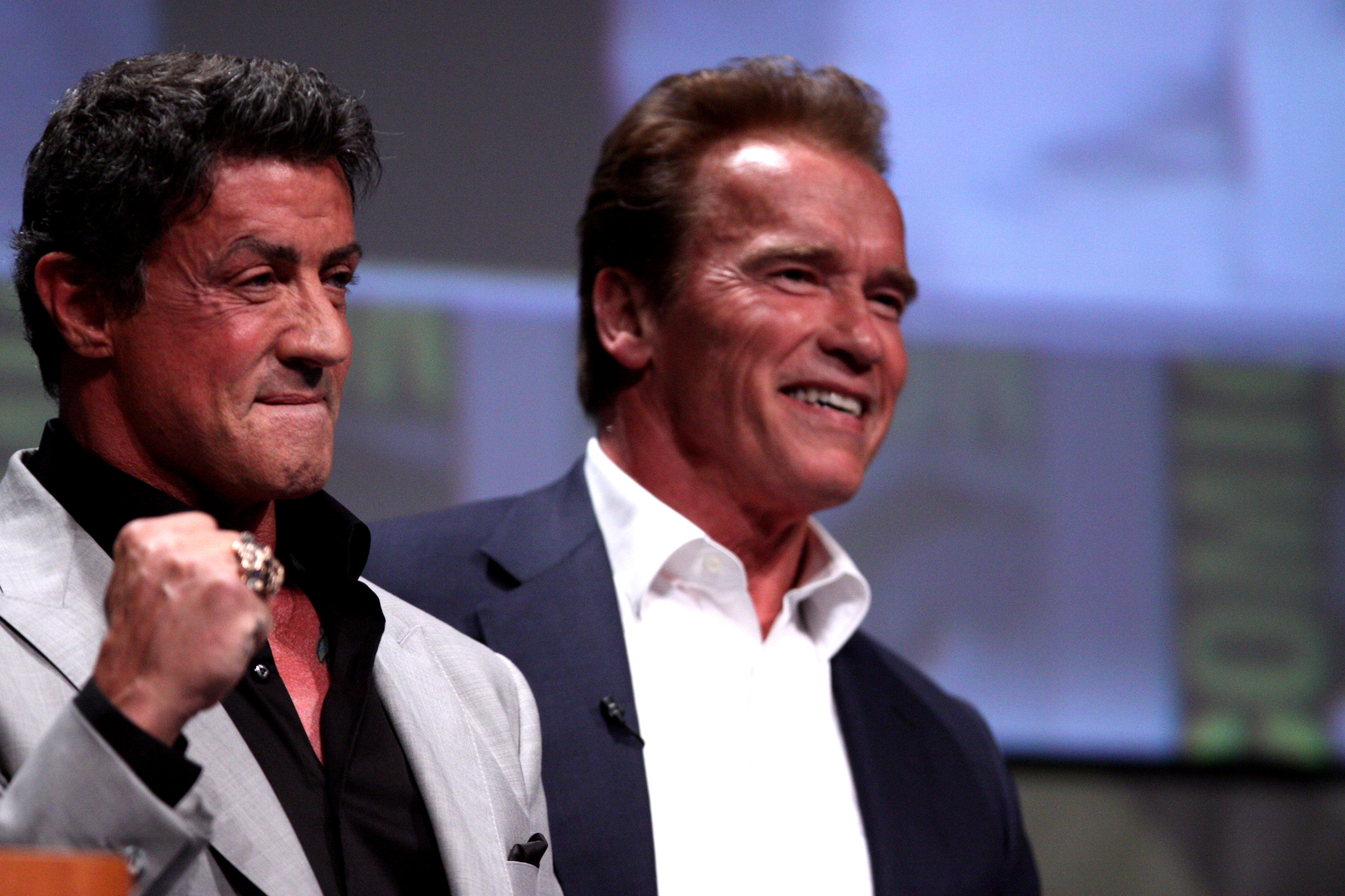 Sylvester Stallone & Arnold Schwarzenegger speaking at the 2012 San Diego Comic-Con International in San Diego, California.